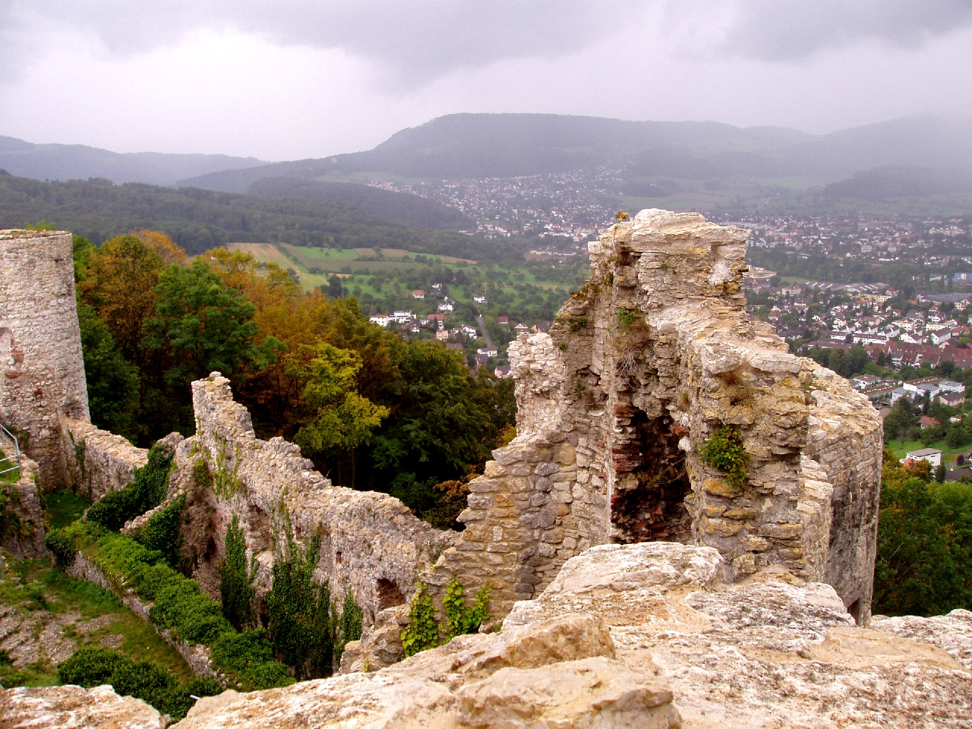 Foto by Rynacher, 29.08.04; unter GNU-FDL